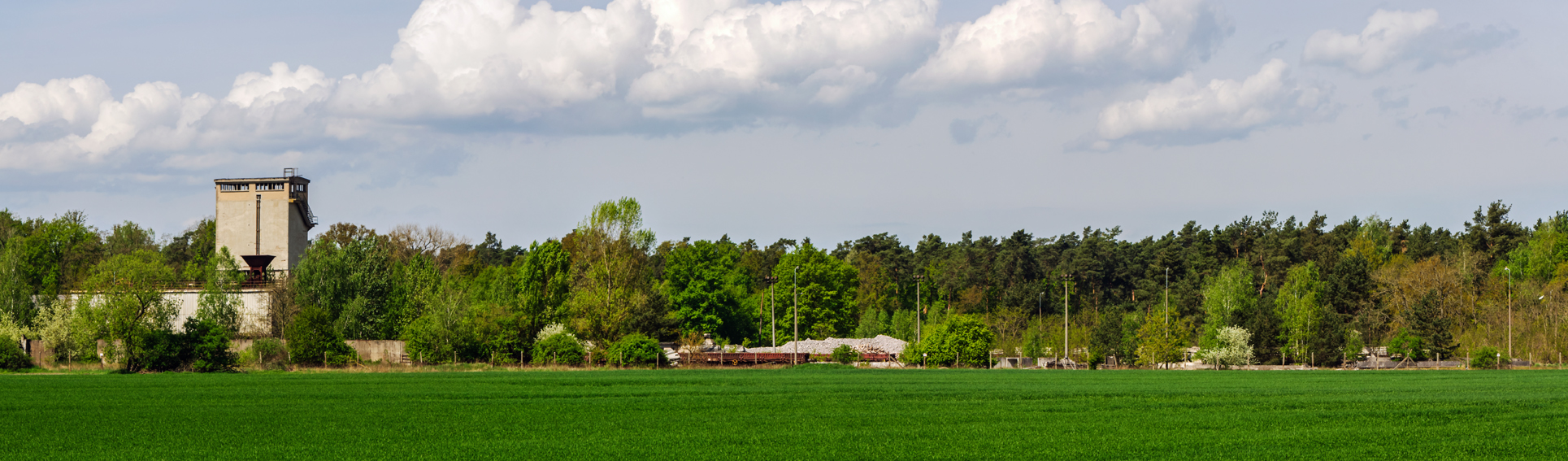 Railway connection concrete threshold over the station Güsen